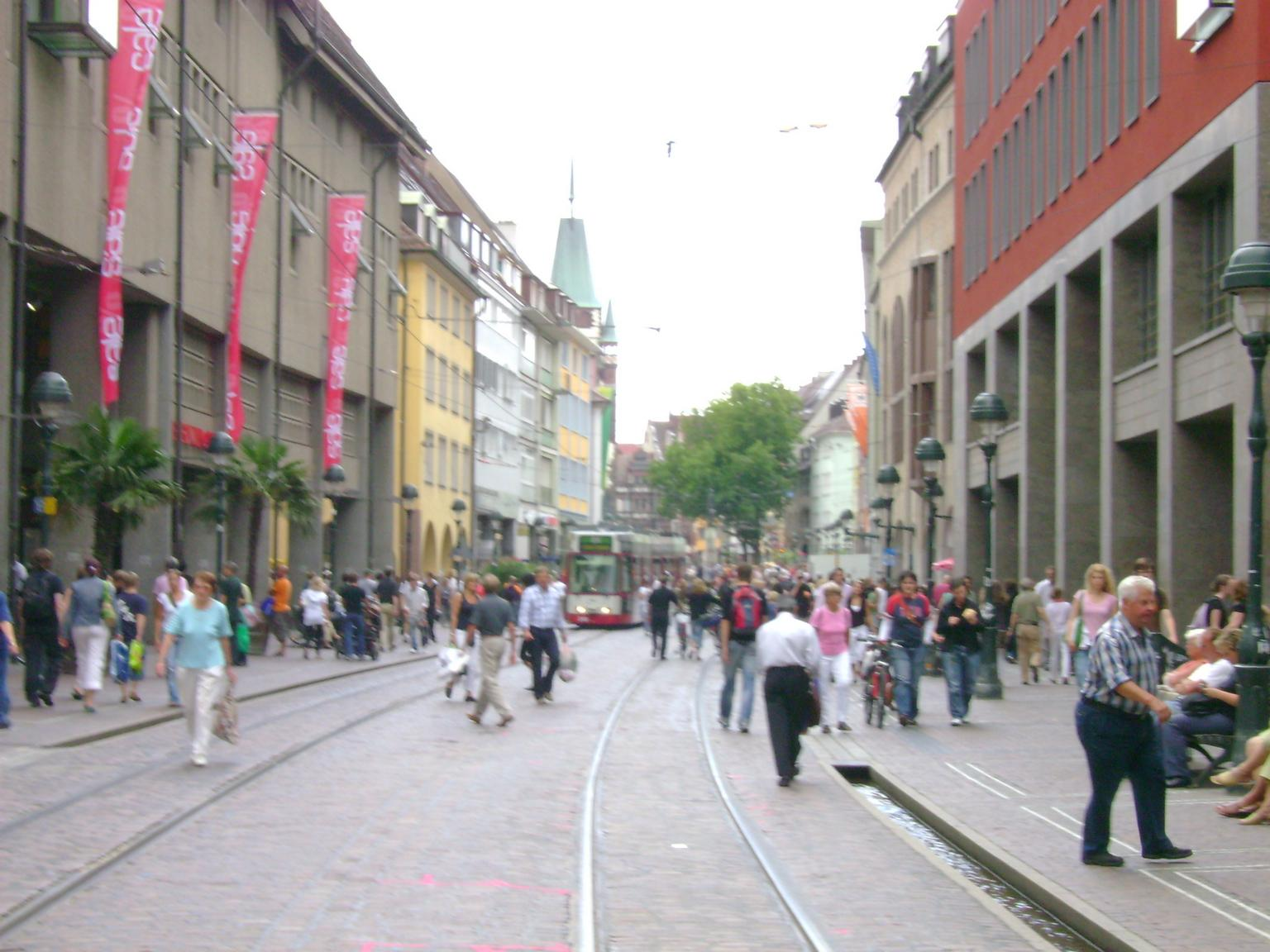 Freiburg, Baden-Württemberg, Germany